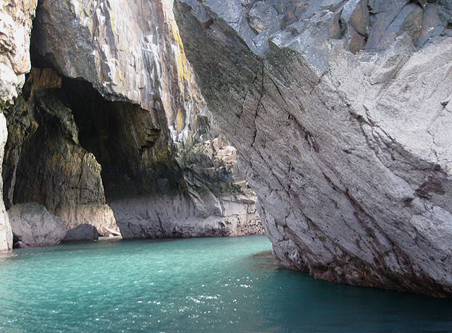 Looking into 'The cathedral' Southern tip of Ramsay Island.